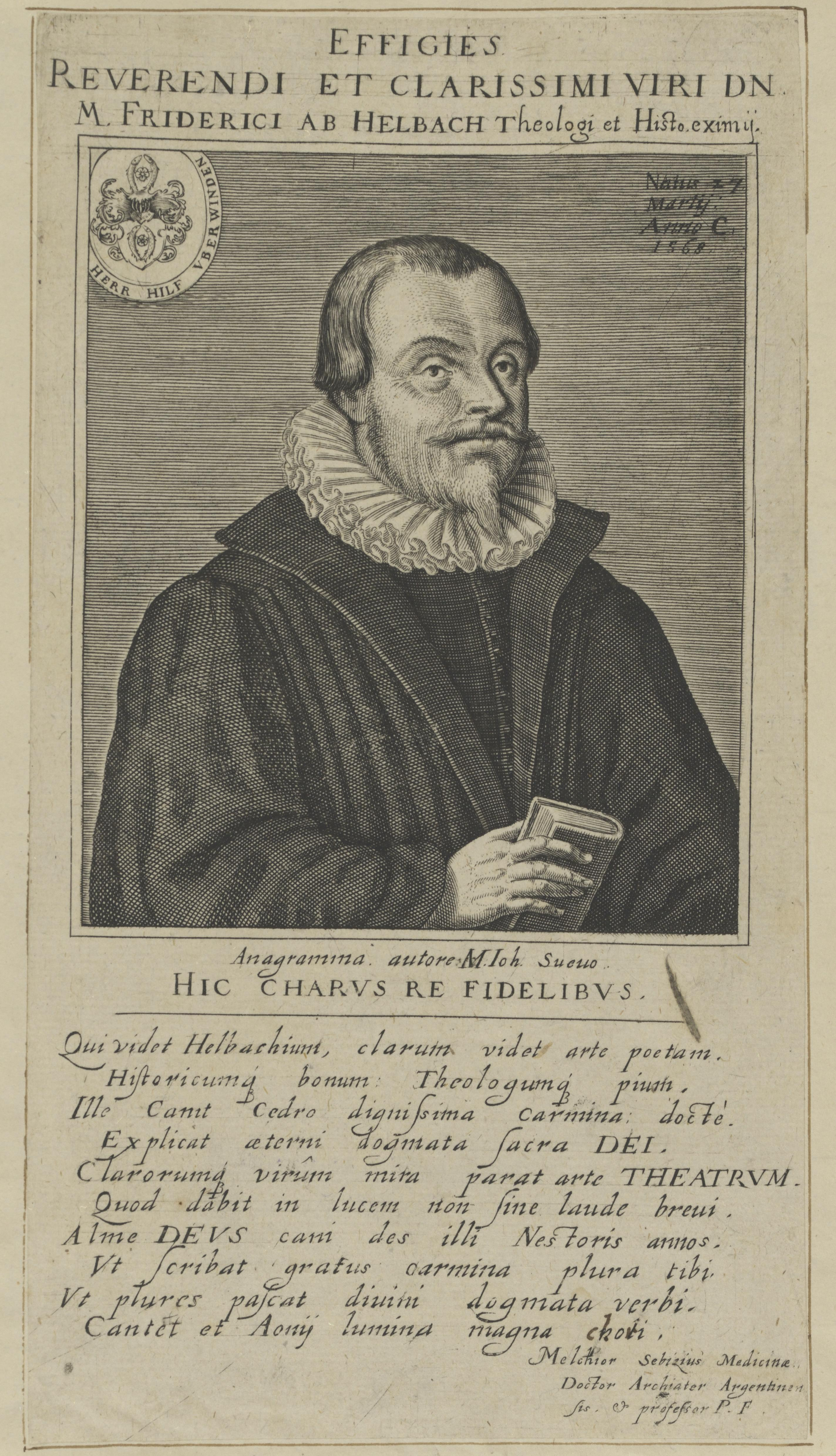 Friedrich Helbach